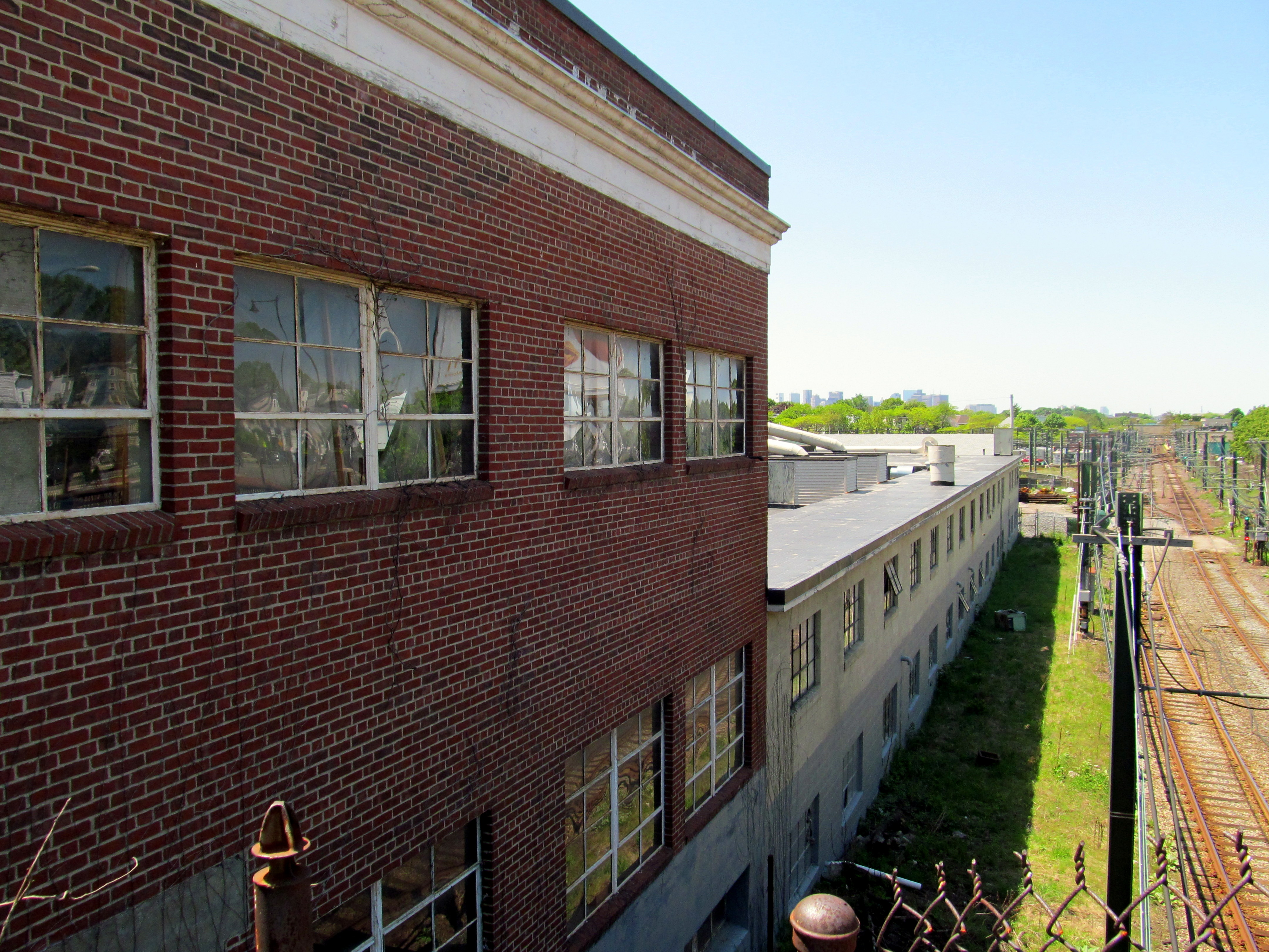 New England Casket Company (former BRB&l carhouse) and Blue Line tracks in May 2012